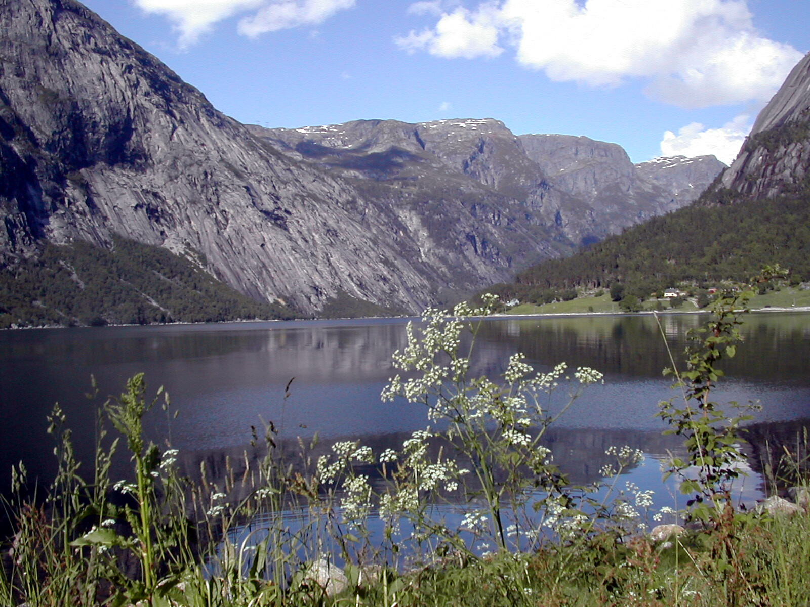 Simadalsfjorden, a part of the Norwegian fjord Hardangerfjorden in the municipality of Eidfjord. The picture is taken at Stavanesodden, we look to Simadalen and Kjeåsen (to north-east).